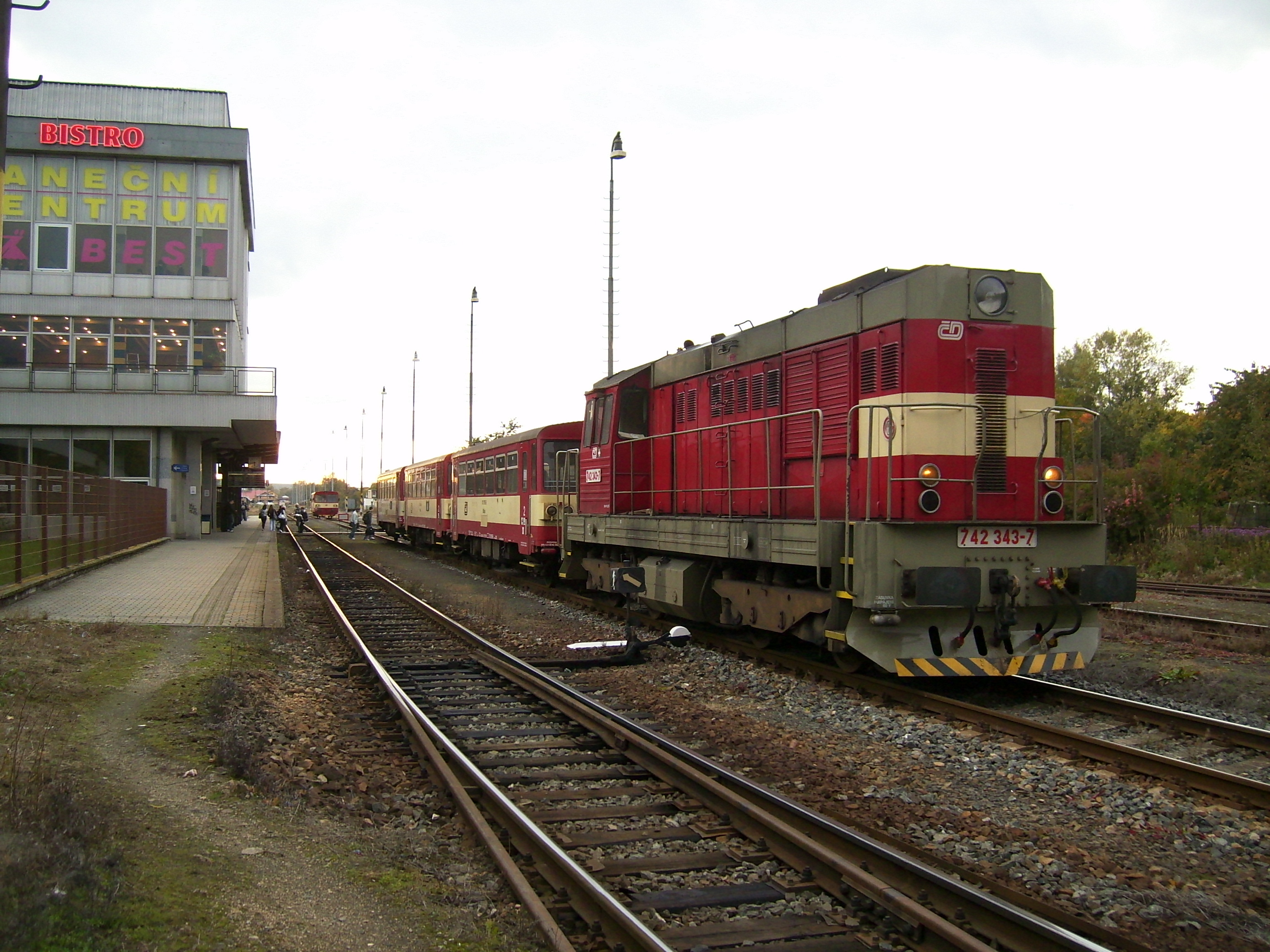 Karlovy Vary (Carlsbad), downtown railwaystation